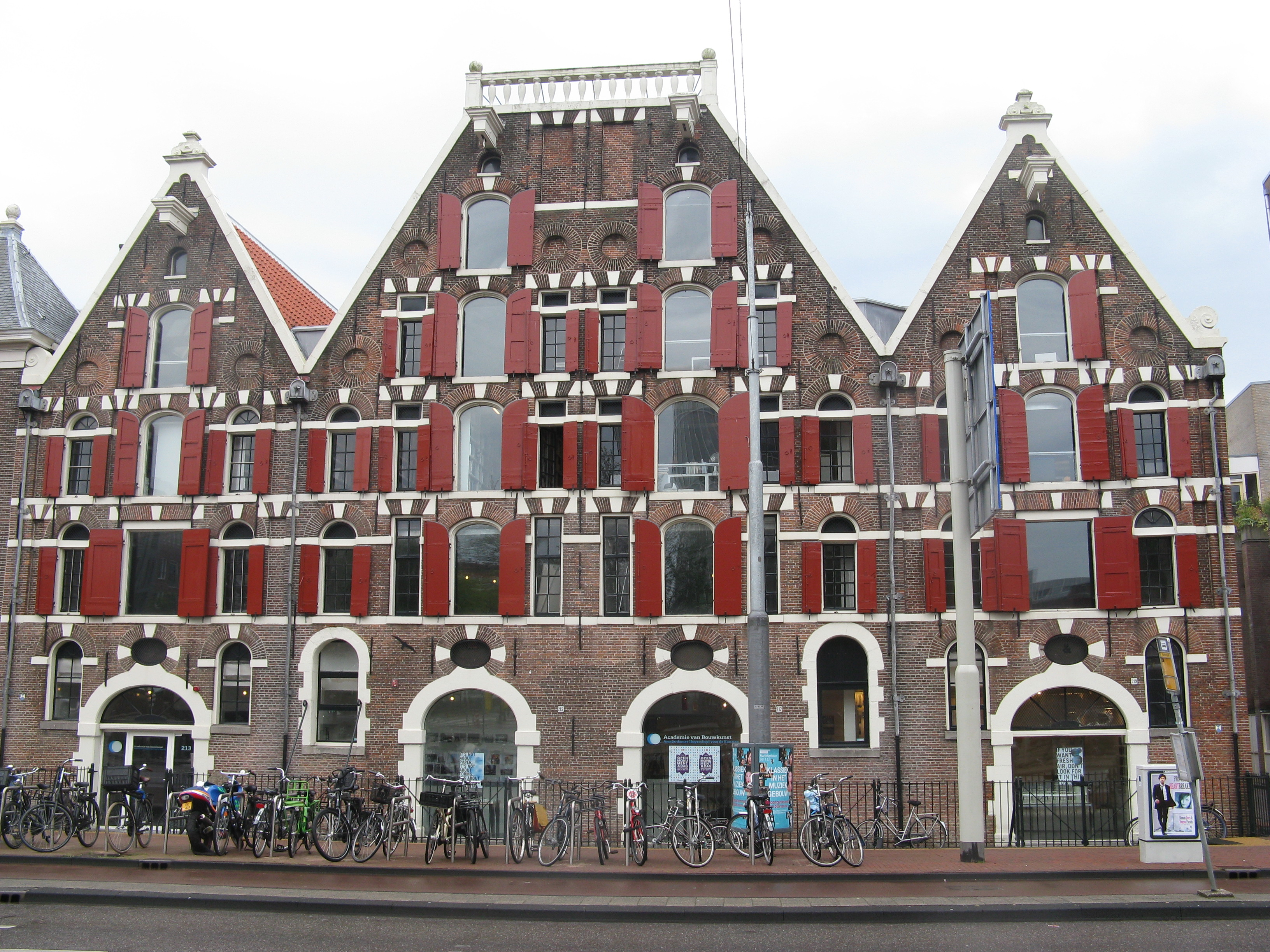 Academie van Bouwkunst Amsterdam.